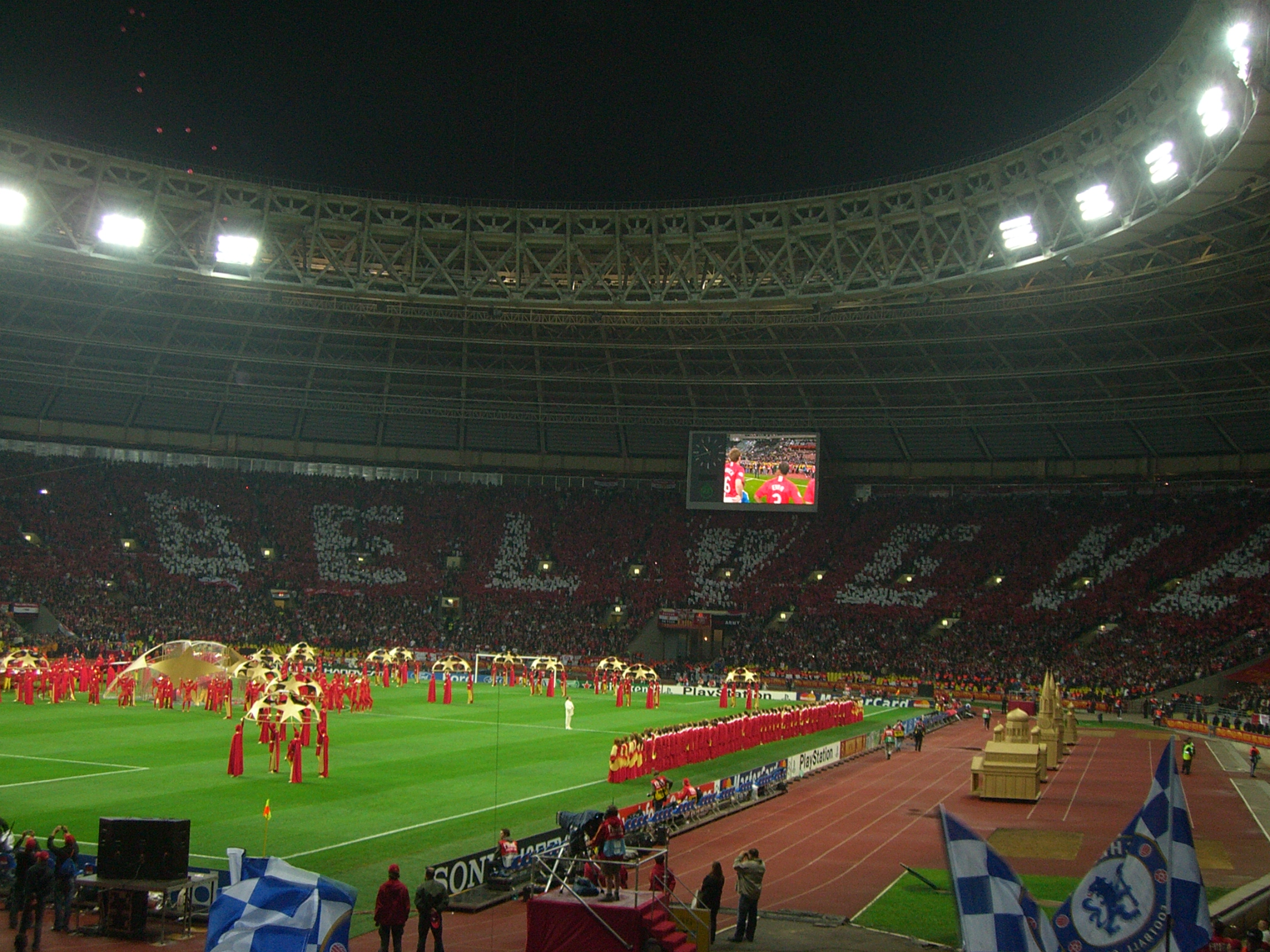 Manchester United fans display a card mosaic reading "Believe" prior to the 2008 UEFA Champions League Final between Manchester United and Chelsea at the Luzhniki Stadium, Moscow, on 21 May 2008